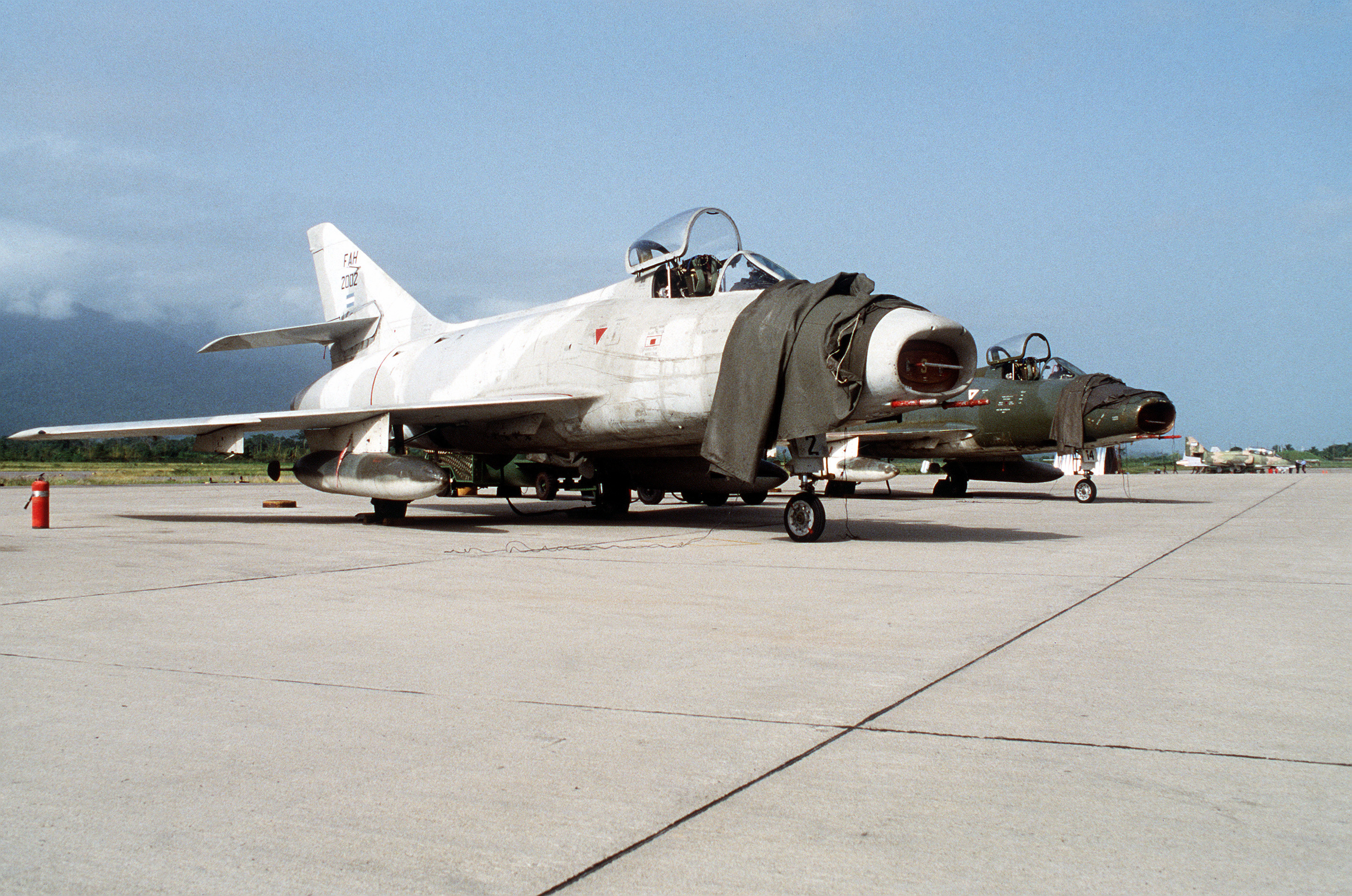 Two French-built Super Mystere B.2 aircraft of the Honduran air force sit on the flight line with tarpaulins over their nose (Location: La Ceiba).